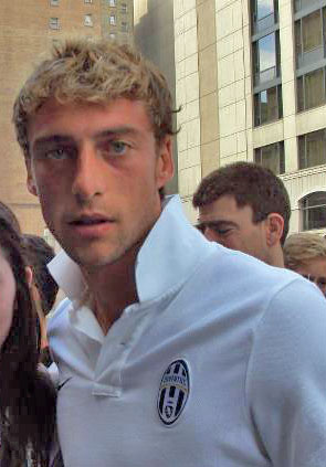 Italian football player Claudio Marchisio with Juventus FC at Toronto, Ontario, Canada in July 2011.